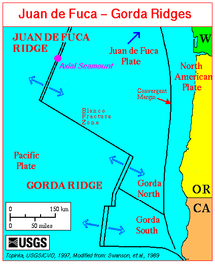 Map of Juan de Fuca Ridge - Gorda Ridge - Axial Seamount - Blanco facture zone -- showing features of Pacific/Juan de Fuca/North American subduction system relative to Western United States. Open blue arrows, ridge-spreading directions; solid blue arrow, convergence direction. -- Modified from: Swanson, et al., (1989) IGC Field Trip T106: Cenozoic Volcanism in the Cascade Range and Columbia Plateau, Southern Washington and Northernmost Oregon, p.2